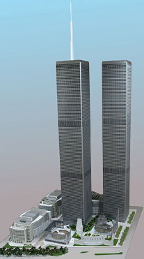 Kenneth "Ken" Gardner's proposed World Trade Center design, which would have restored the New York City skyline to its former state before the September 11 attacks on the original World Trade Center. The proposed Gardner twin towers would have 115 floors—5 floors taller than the originals. The towers would be situated next to the original footprints of the towers, the memorial being called to use the surviving exterior panels of the collapsed towers.